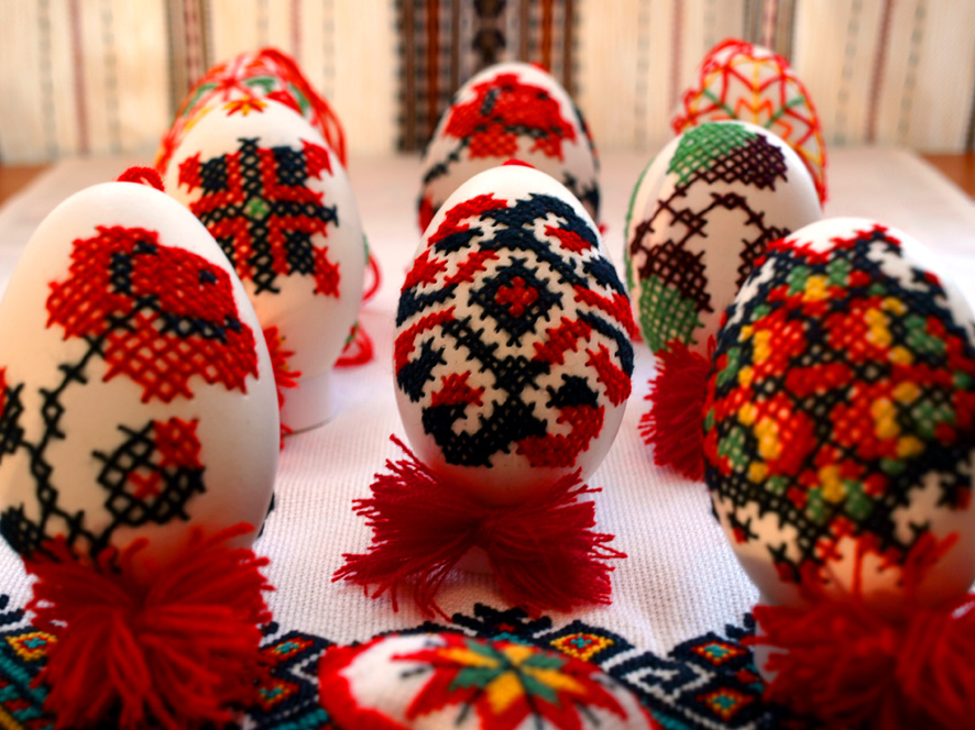 Cross stitched Easter eggs by Inna Forostyuk, the folk master of Luhansk region (Ukraine).